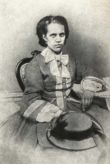 Sсanned from L. Grossman. Dostoevskij M.: Molodaja gvardija, 1965 (ZhZL); p. 512-513.